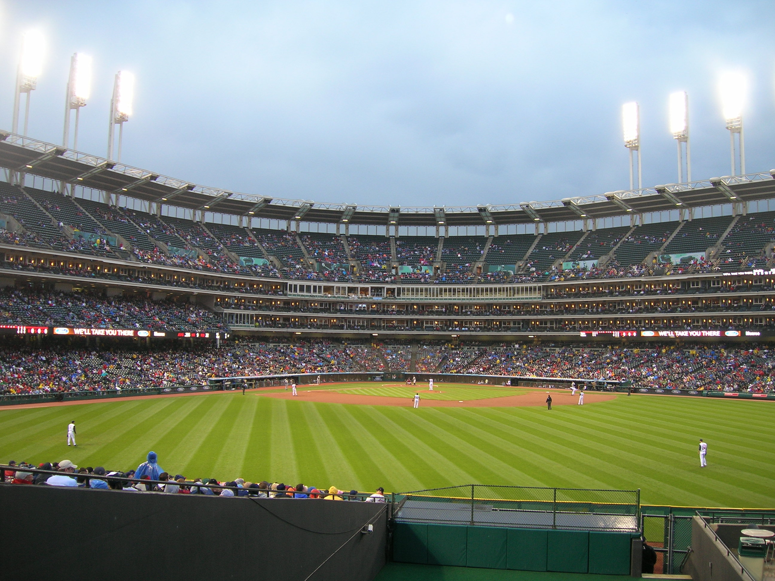 Looking in toward the infield from behind the right-centerfield bullpen at Jacobs Field. 07:58, 26 June 2006 . . Haaron755 . .2592 x 1944 (984,122 bytes)